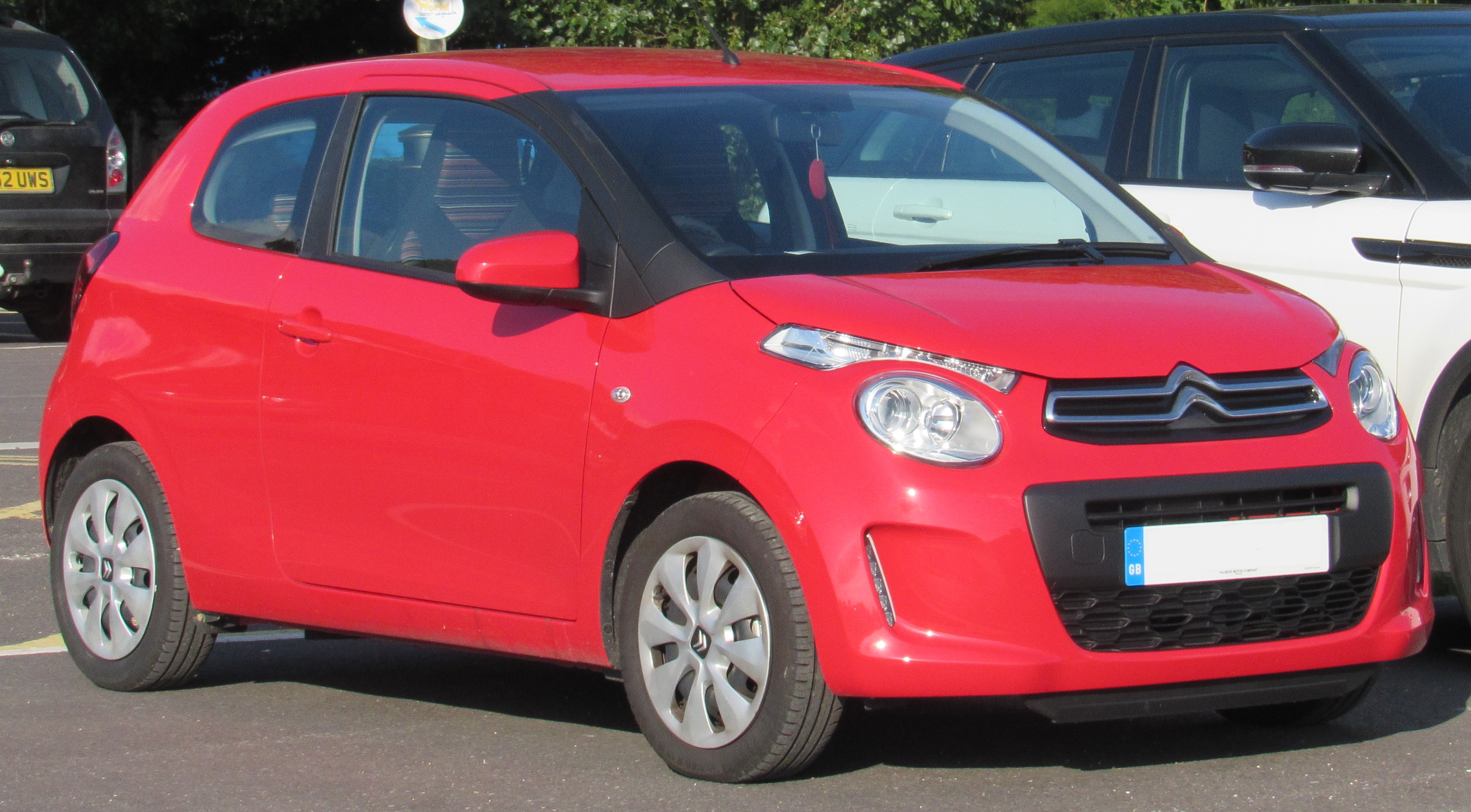 2016 Citroen C1 Feel 1.0 Taken in Weymouth, Dorset